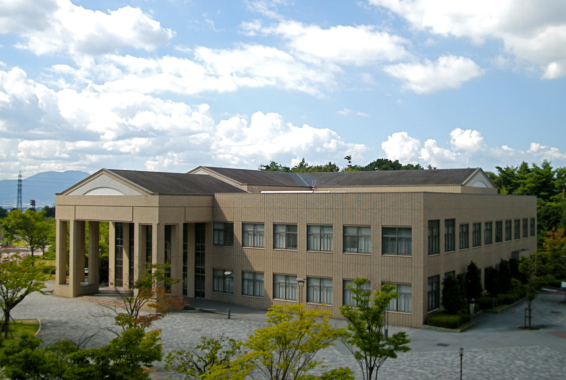 University Library of Ritsumeikan University, Japann